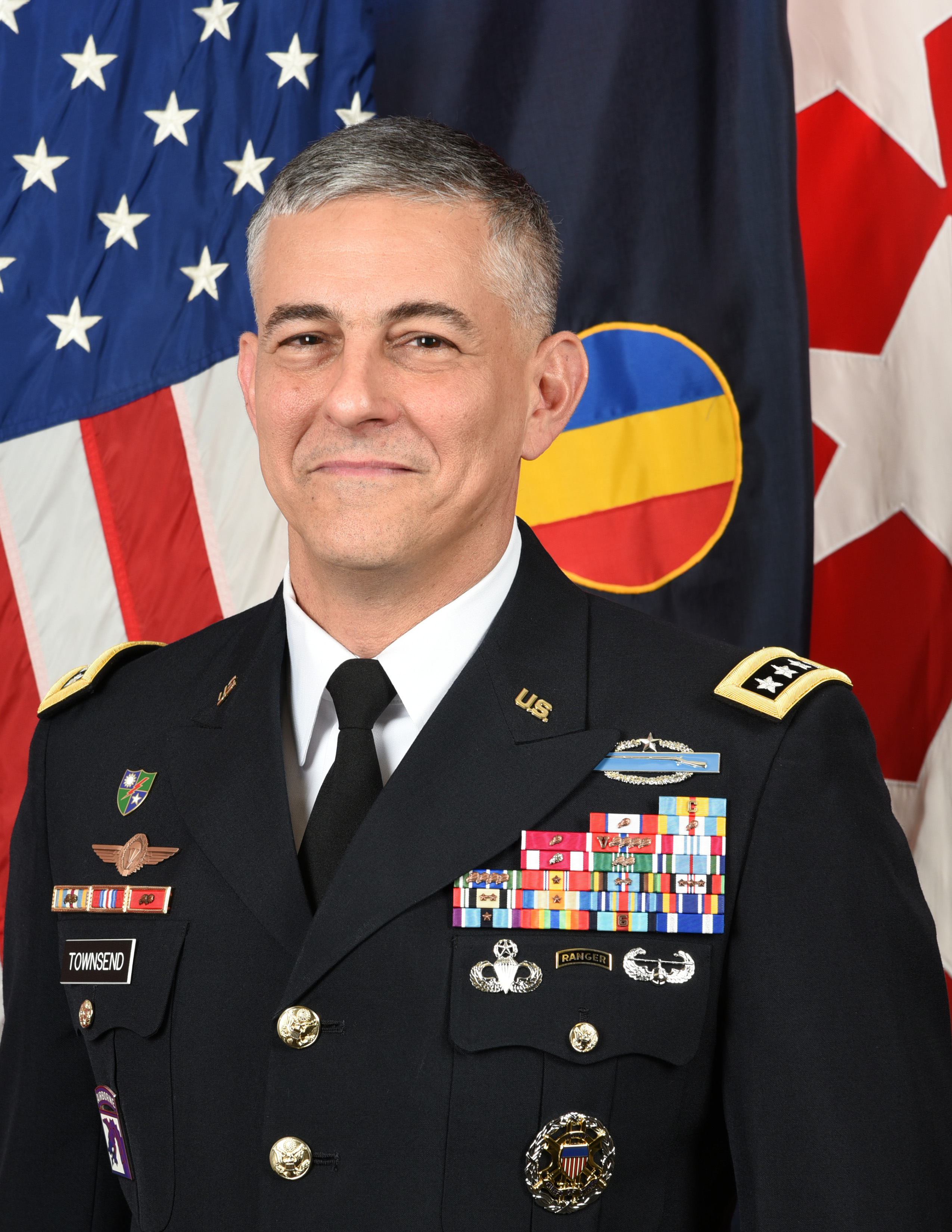 General Stephen J. Townsend